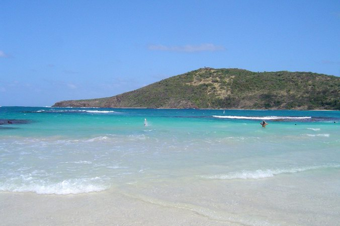 Flamenco Beach, Culebra, Puerto Rico